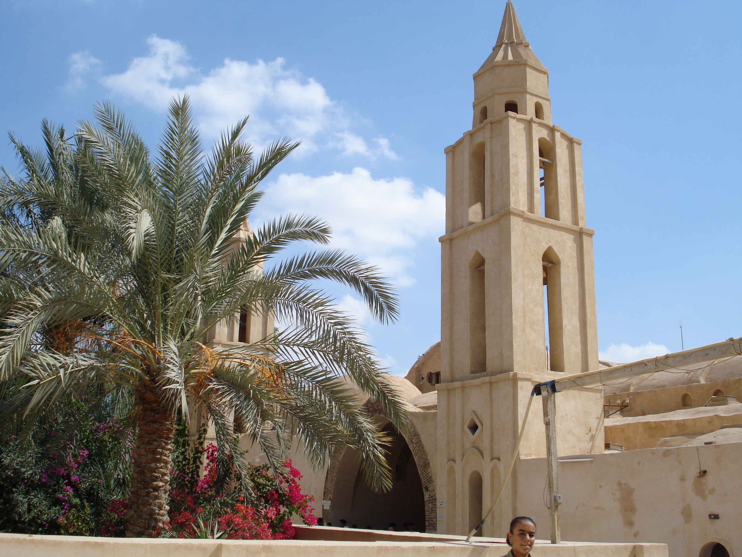 A Coptic Christian Church from the outside. In St. Bishoy Monastery between Cairo and Alexandria.